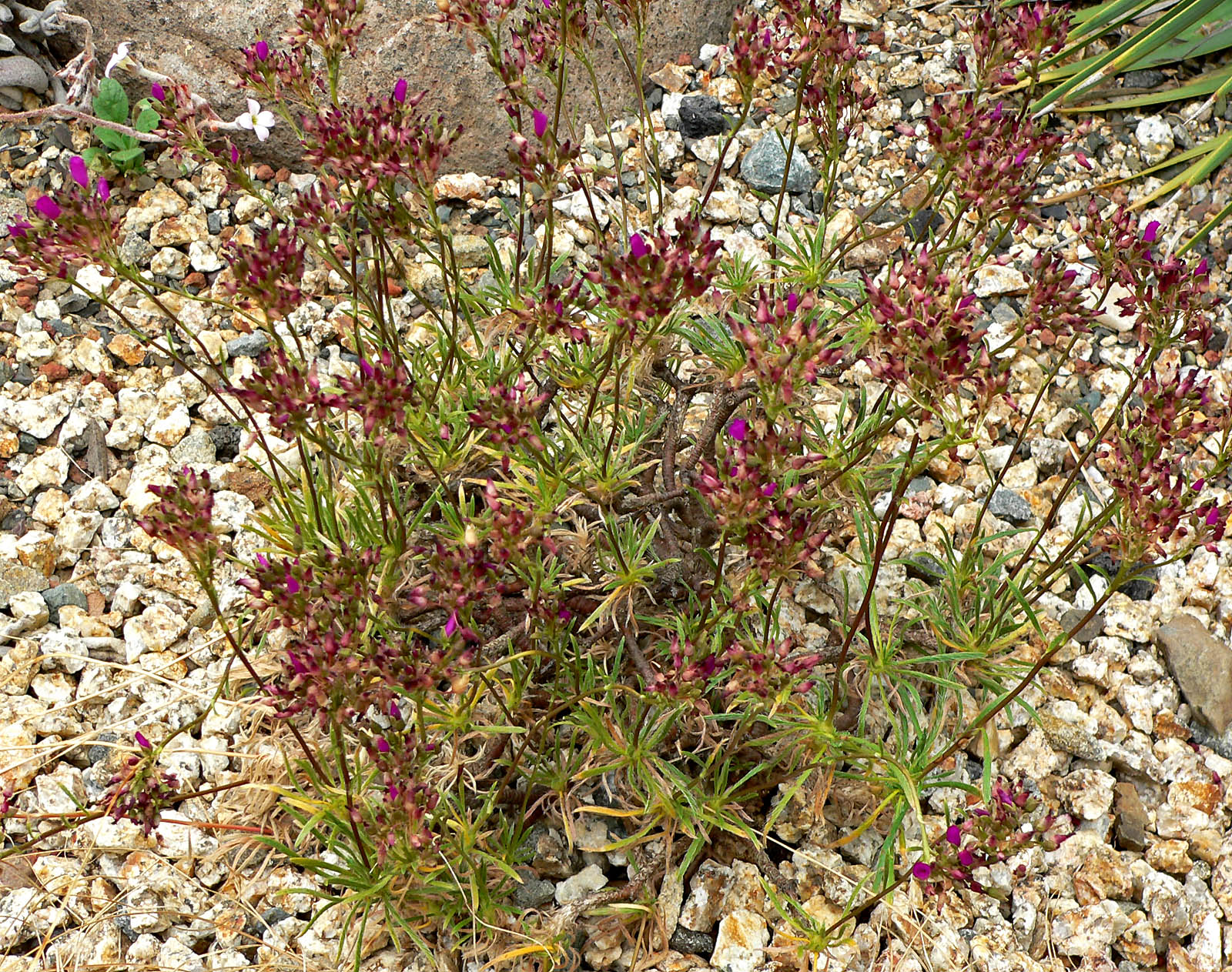 Photo of Calandrinia umbellata at the University of California Botanical Garden